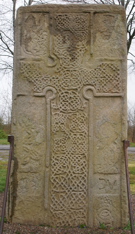 Rodney's Stone, Brodie, Moray, Scotland